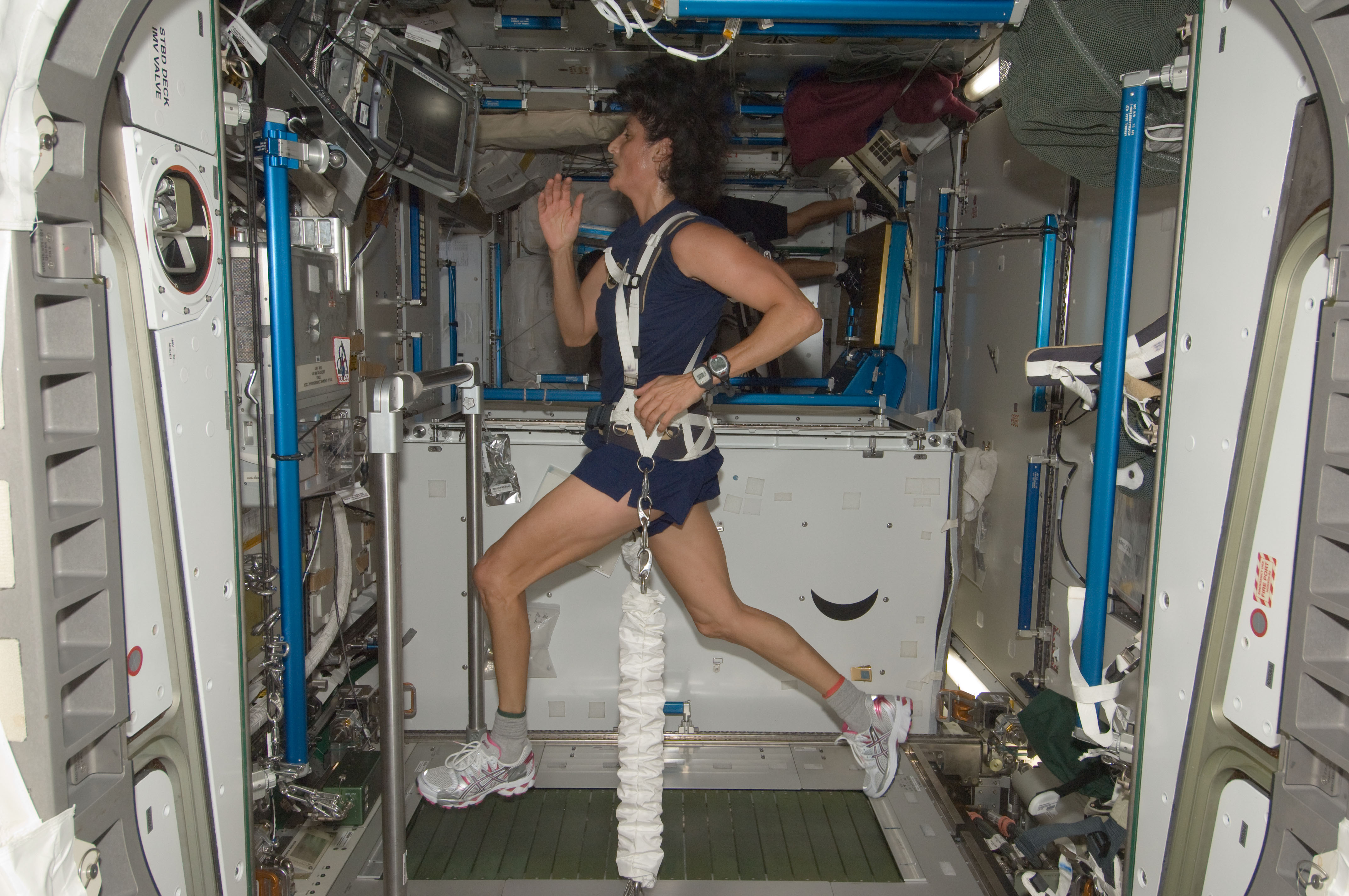 NASA astronaut Sunita Williams, Expedition 32 flight engineer, equipped with a bungee harness, exercises on the Combined Operational Load Bearing External Resistance Treadmill (COLBERT) in the Tranquility node of the International Space Station.